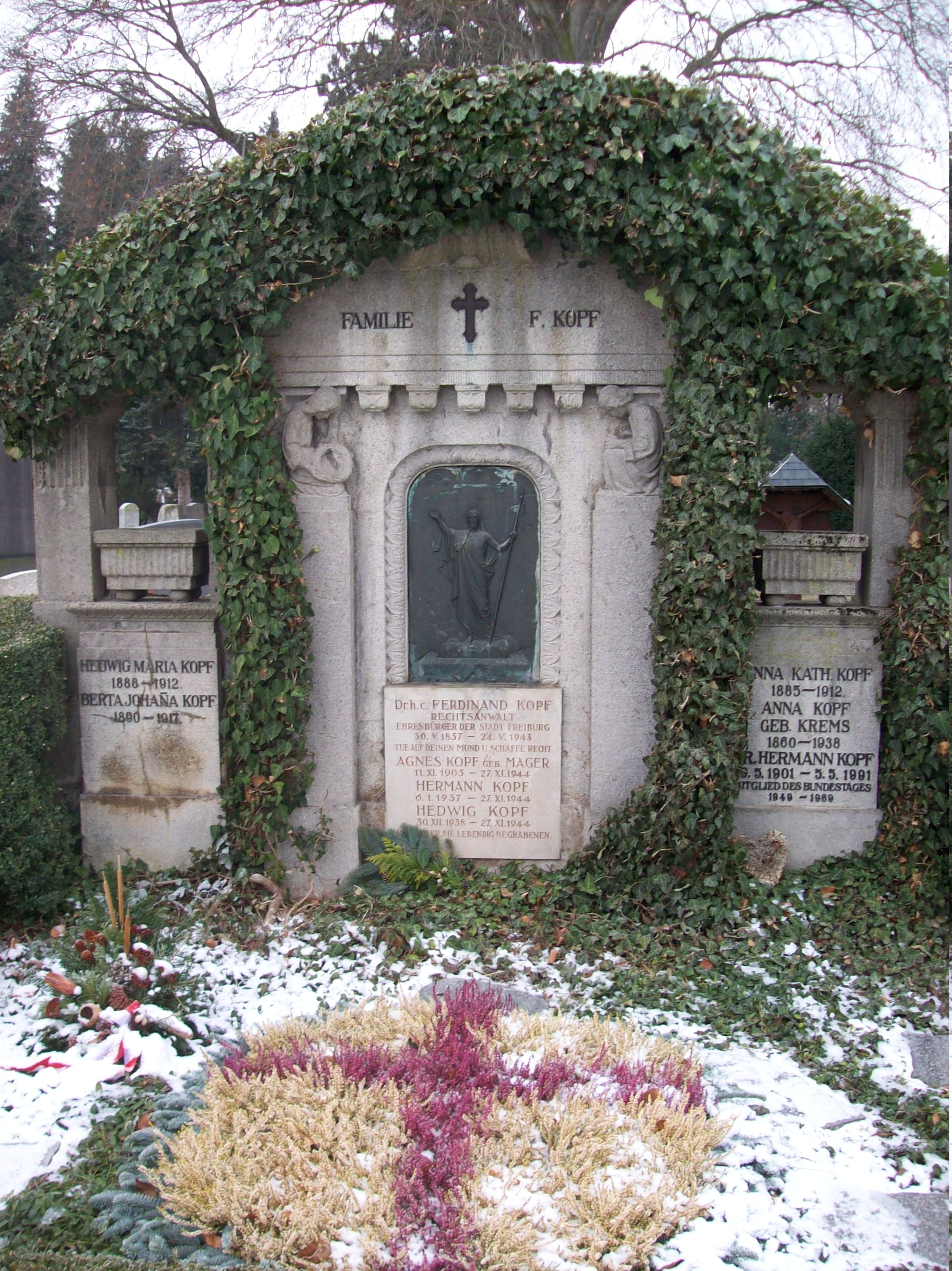 Grave of Hermann Kopf (member of the German Bundestag) in Freiburg / Germany